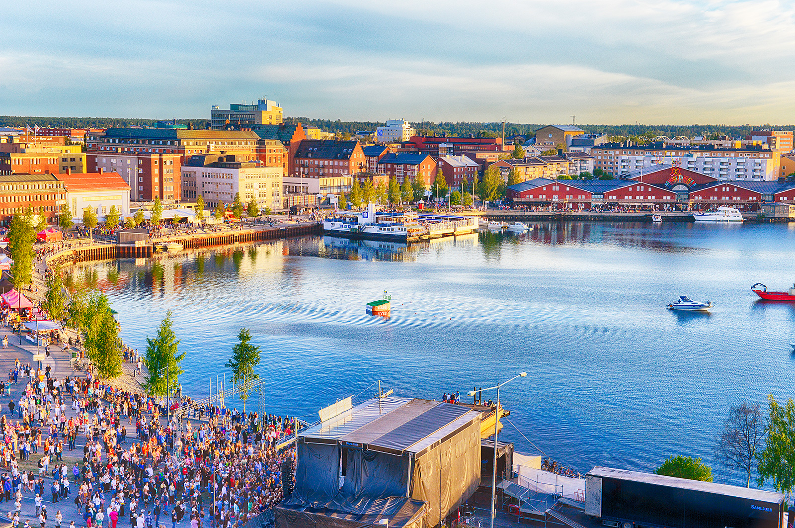 View over Luleå during Luleå hamnfestival 2014